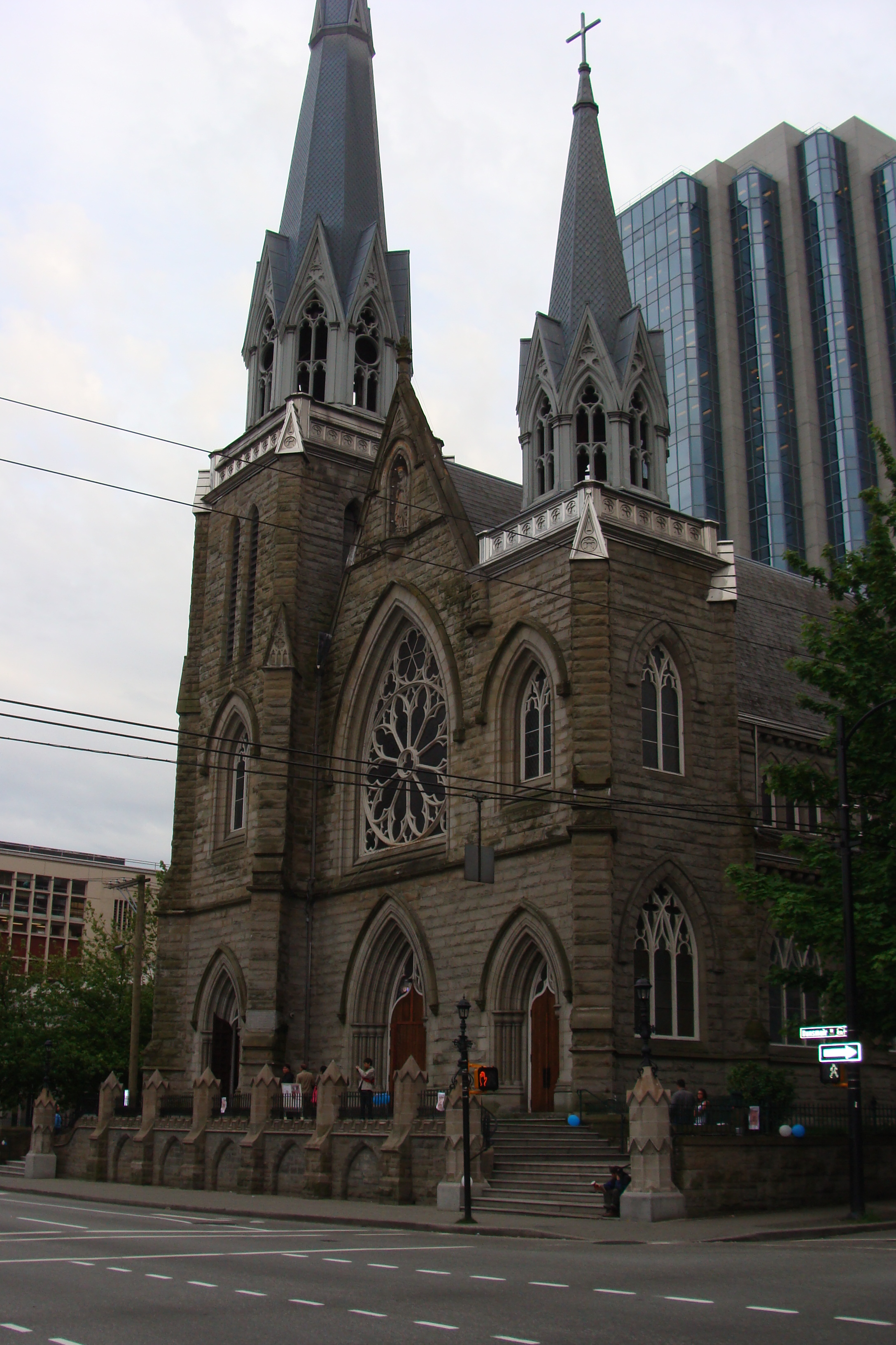 The Holy Rosary Cathedral at 646 Richards Street in the City of Vancouver, BC, Canada, serves the official Roman Catholic Archdiocese of Vancouver, Canada. It was built between 1899-1900 and is designated as a City of Vancouver heritage building.